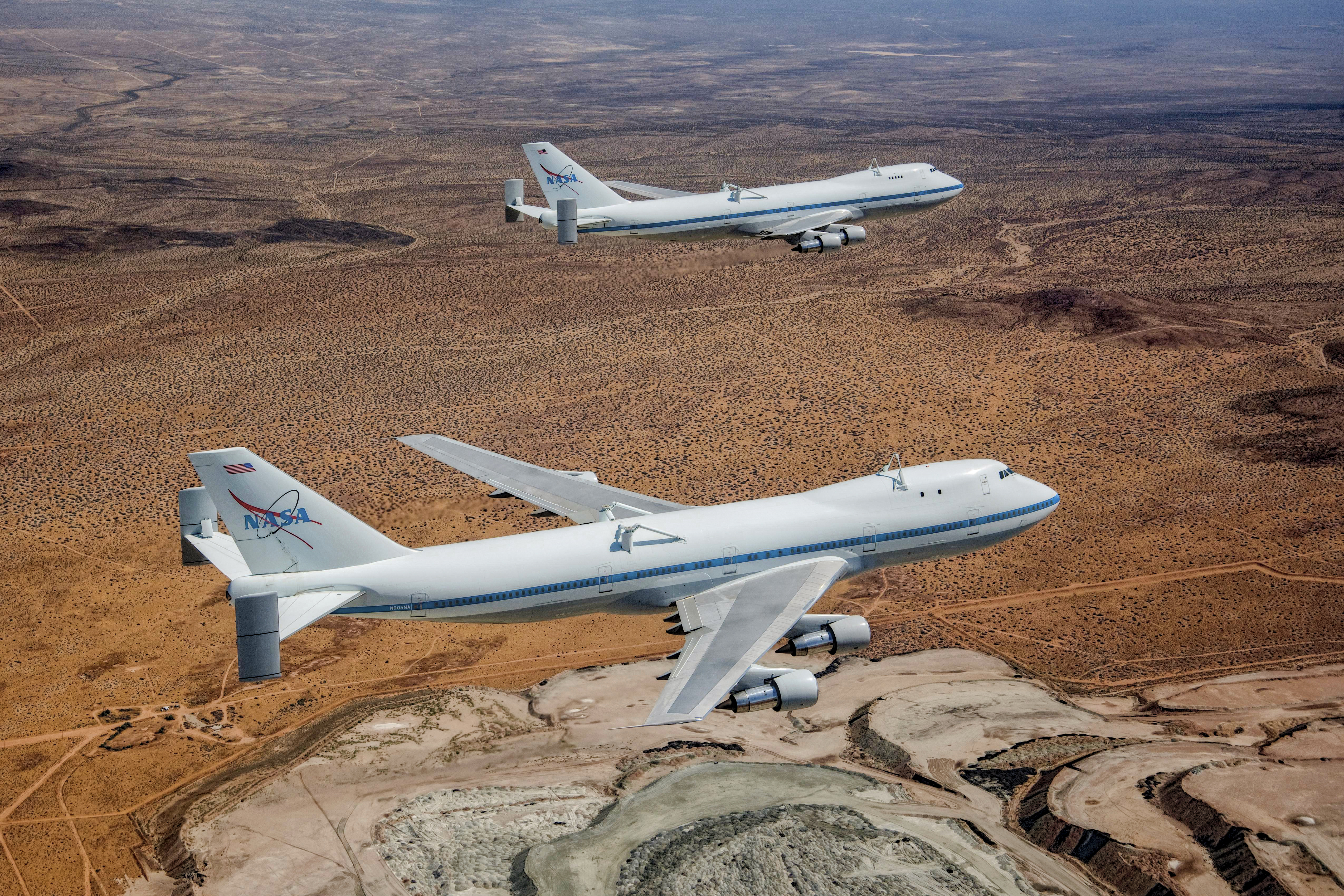 For the first time ever, the NASA Shuttle Carrier Aircraft 905 (foreground) and NASA 911 aircraft (rear) were captured together by photographer Carla Thomas as they flew in formation over the Rio Tinto Borax mine west of Boron, at the Edwards Air Force Base test range. Located in the western Mojave Desert and eastern Kern County, California. NASA 905 was on a functional check flight after undergoing maintenance, while NASA 911 was aloft on a flight crew proficiency flight.